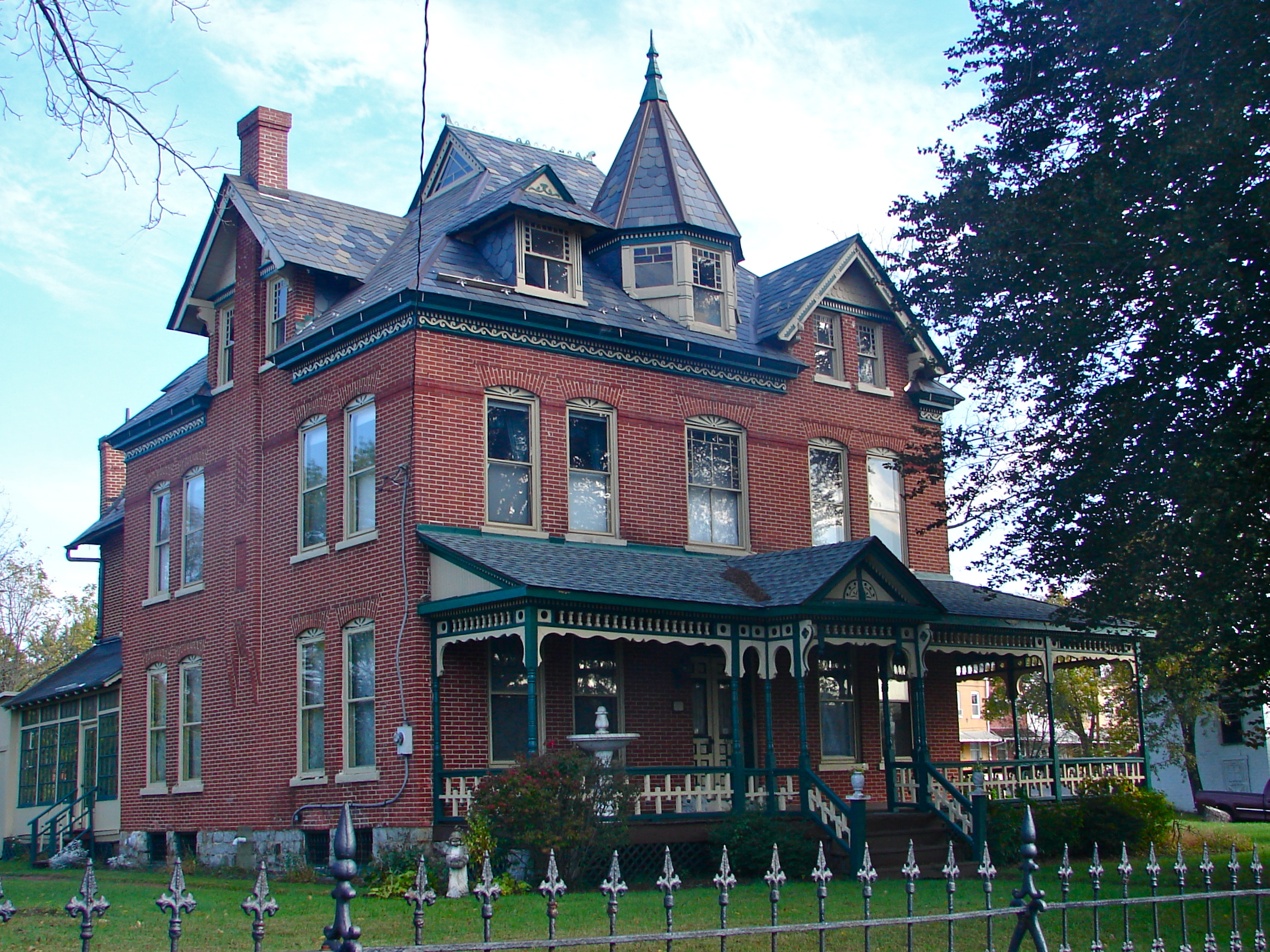 Gauff-Roth House on the NRHP since September 5, 1985. At 427–443 Auburn Street, Allentown, Pennsylvania